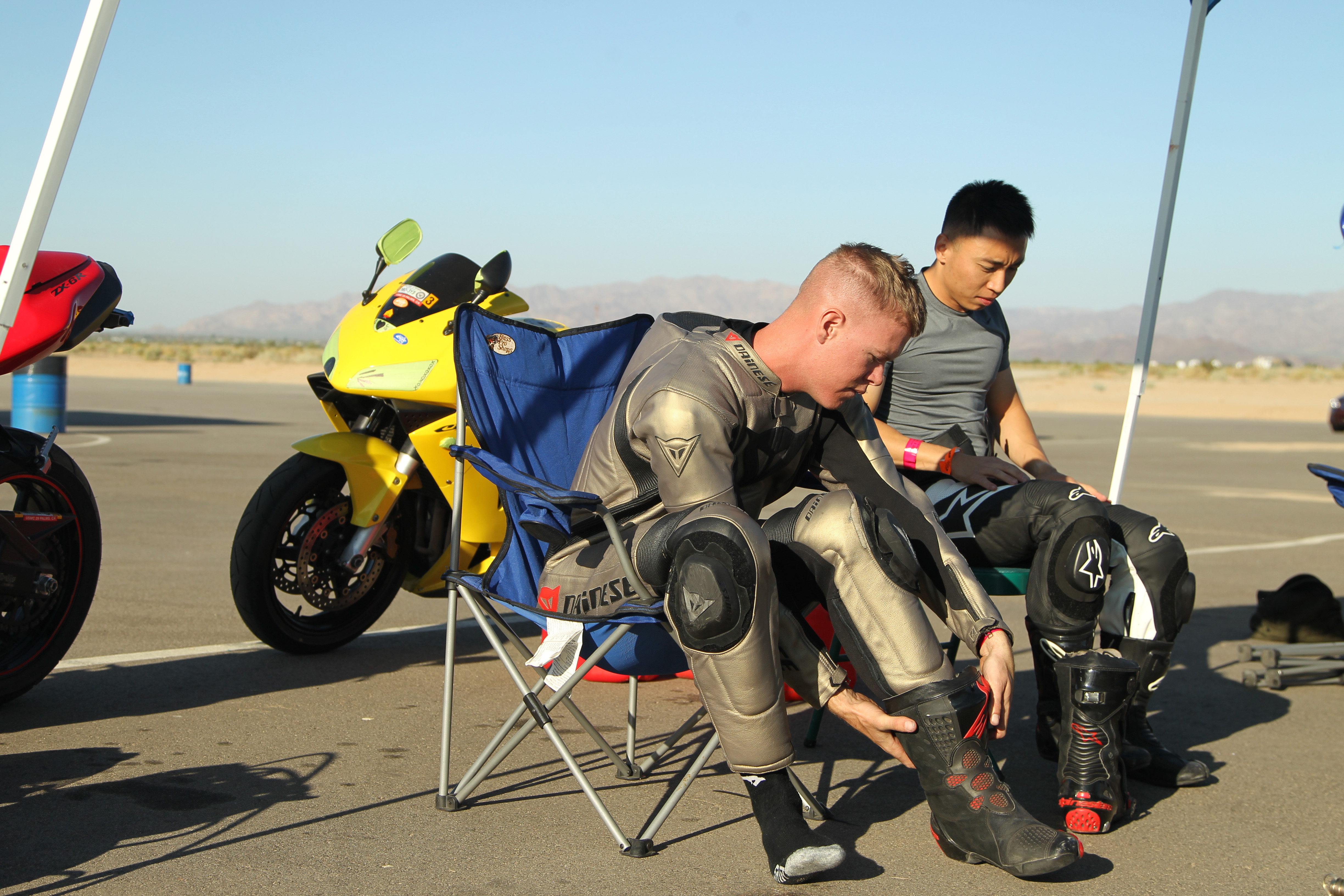 Lance Cpl. Joshua Vogel, light armored vehicle crewman, with 3rd Light Armored Reconaissance Battalion, and Sgt. David Wong, administrative specialist with the Wounded Warrior detachment, gear up before driving onto the track at Chuckwalla Valley Raceway, in Desert Center, Calif., Oct. 15, 2011.